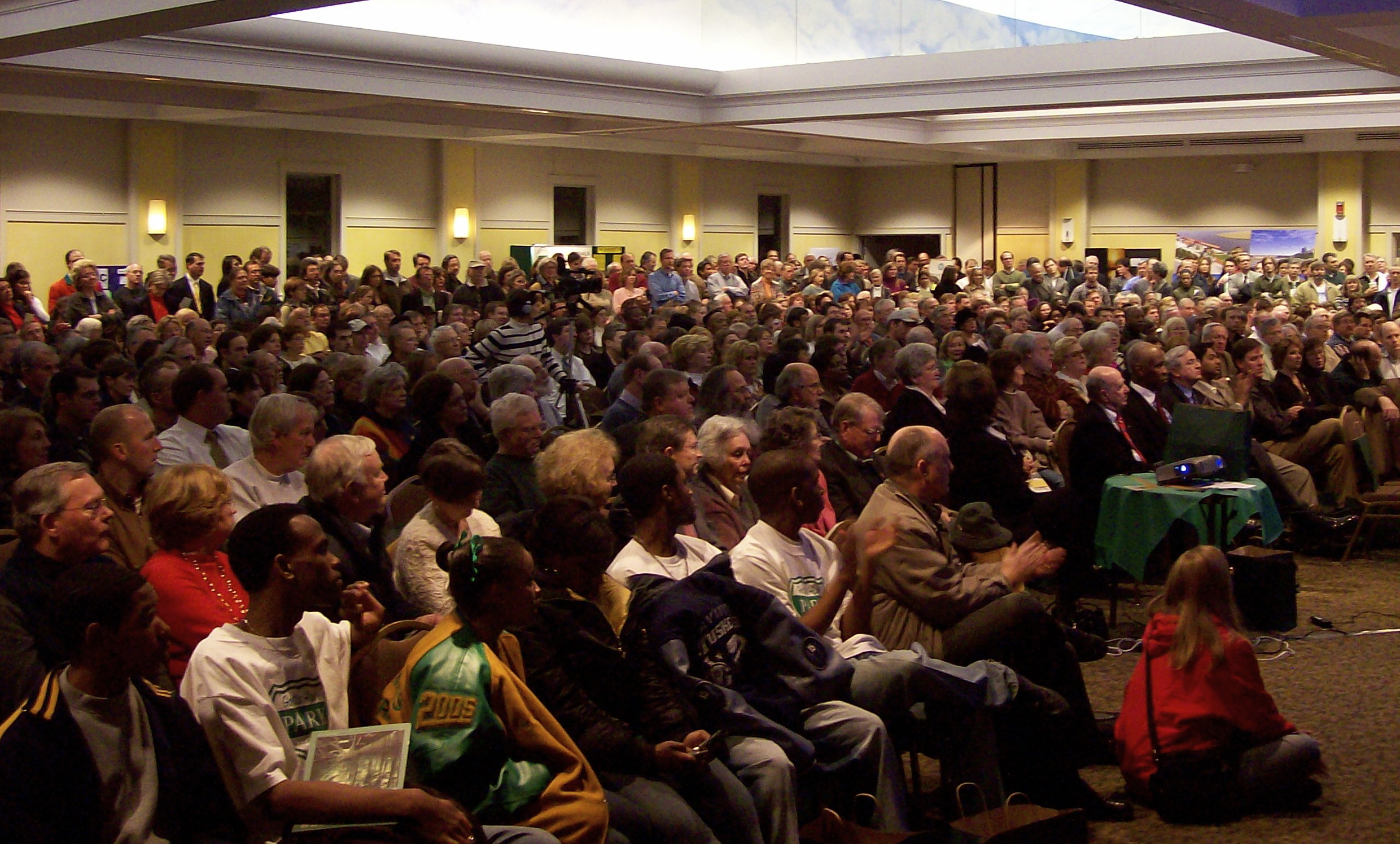 Greening Greater Memphis summit in 2007, convened by the Wolf River Conservancy, Shelby Farms Park Alliance, and Greater Memphis Greenline.